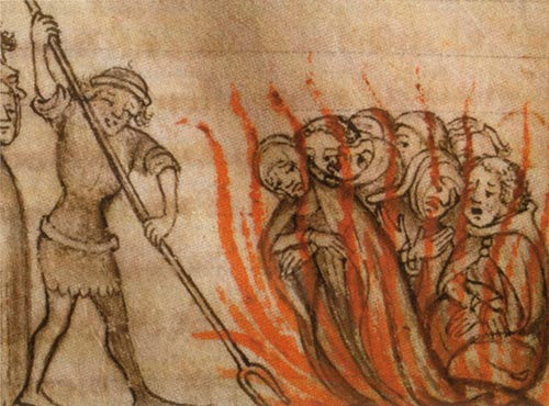 Illustration, anonyme Chronik, „Von der Schöpfung der Welt bis 1384 / From the Creation of the World until 1384“.